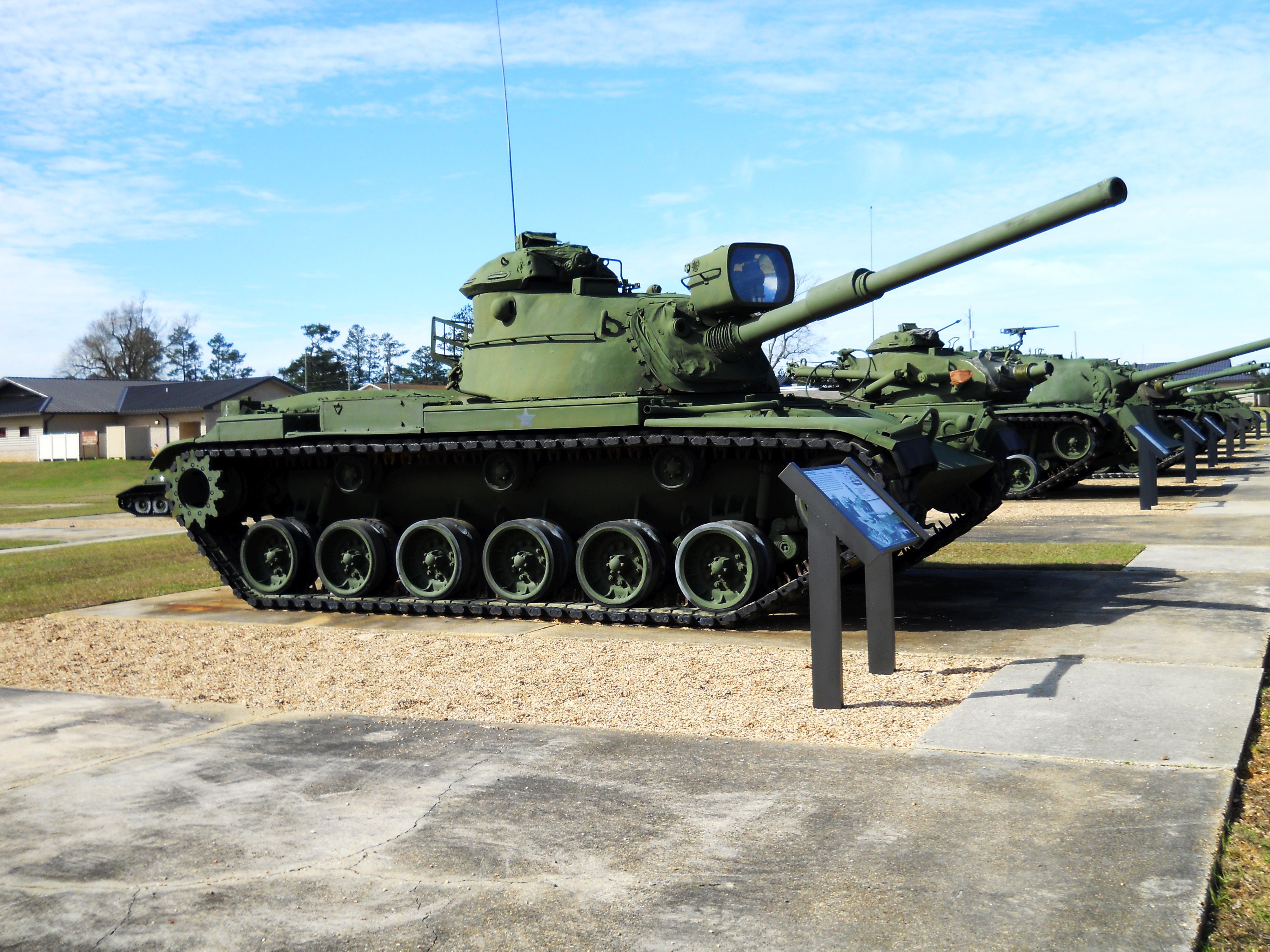 M60 Patton Medium Tank on display at Mississippi Armed Services Museum, Camp Shelby, Forrest County, Mississippi